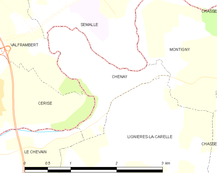 Map of French municipality